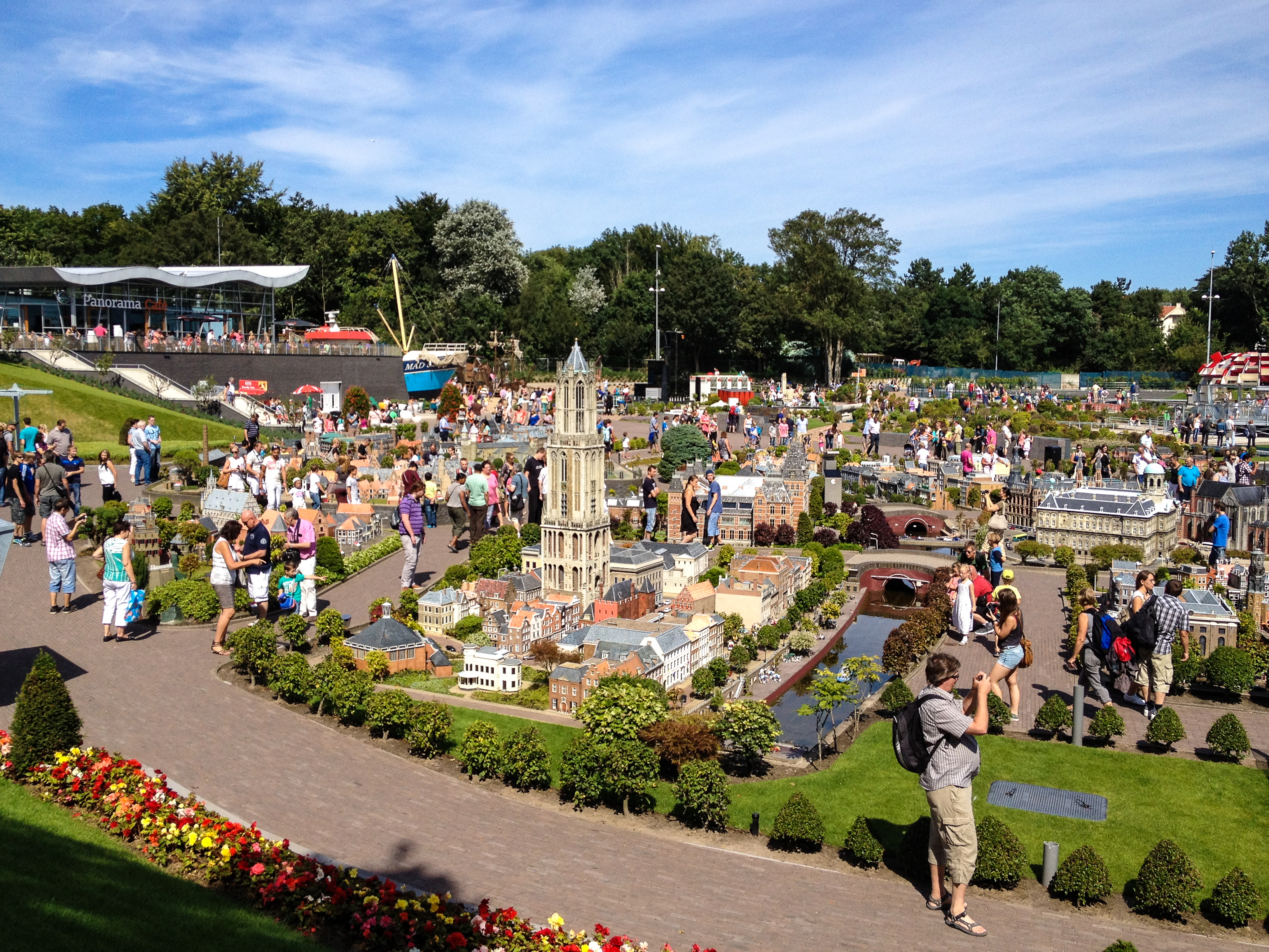 Madurodam is a miniature city located in Scheveningen, The Hague, in the Netherlands. It is a model of a Dutch town on a 1:25 scale, composed of typical Dutch buildings and landmarks, as are found at various locations in the country. This major Dutch tourist attraction was built in 1952 and has been visited by tens of millions of visitors ever since.